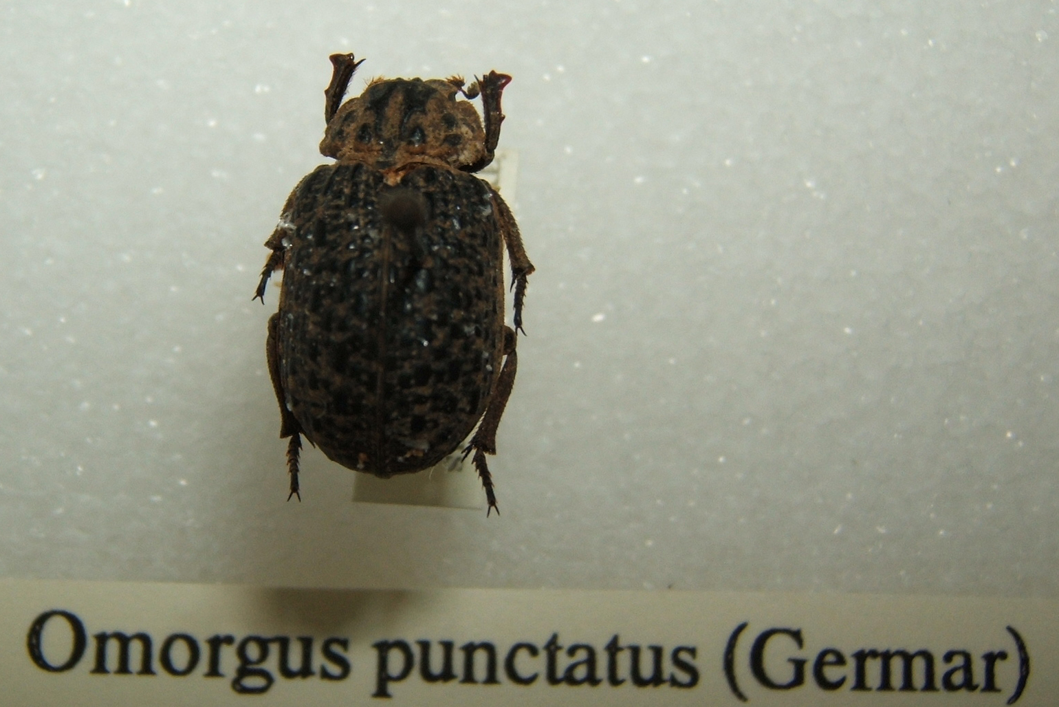 Omorgus punctatus adult taken by Shawn Hanrahan at the Texas A&M University Insect Collection in College Station, Texas.